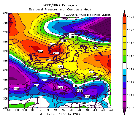 NCEP/NGAR ReanalysisSea Level Pressure (mb) Composite MeanJan to Feb. 1963